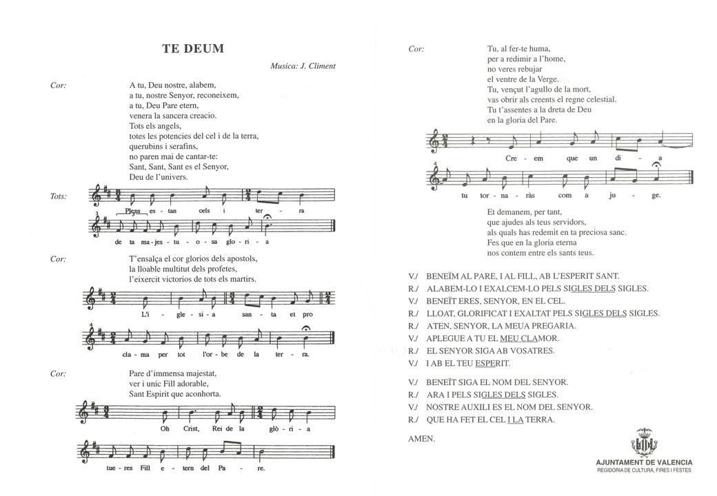 Template:VALENCIA